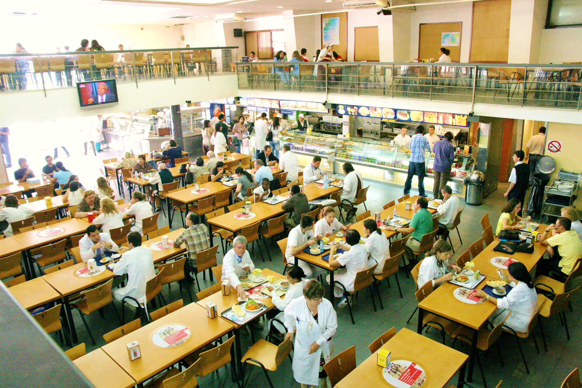 common hall of the Student Committee of the Lisbon Faculty of Medicine